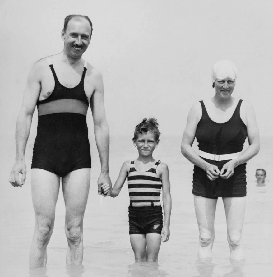 Surrey and England cricketer PGH Fender on holiday with his wife and son at Birchington-on-Sea in Kent, 4th August 1933.